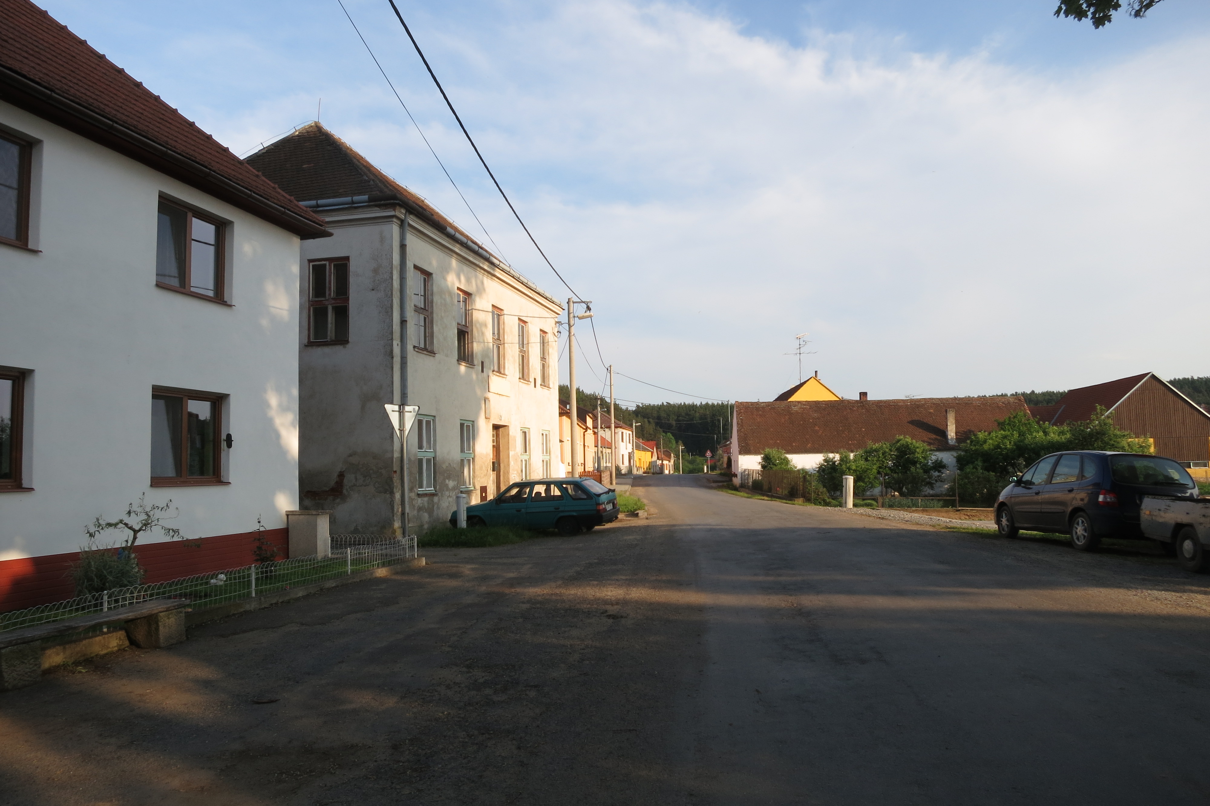 Center of Bačkovice, Třebíč District.